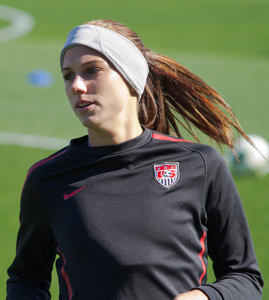 Alex Morgan of the United States Women's National Soccer Team in Frisco, Texas